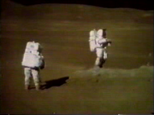 Astronauts Charles Duke (left) and John Young, on the rim of Plum crater crater during Apollo 16 (EVA 1), on the moon. Duke remarked at this time, "John, you are just beautiful. That is the most beautiful sight." Young is standing next to a boulder from which sample 61295 was taken.